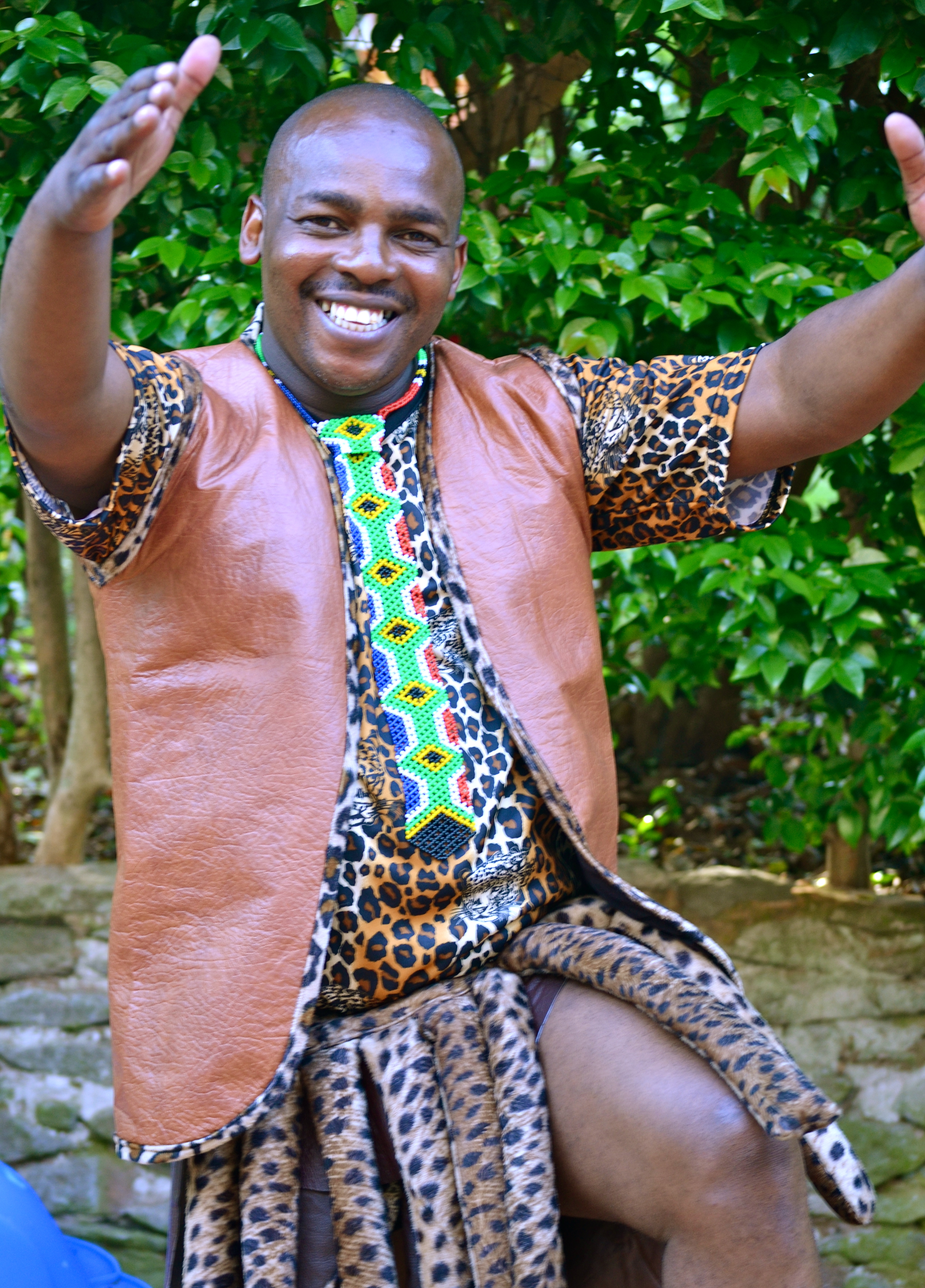 On set shooting for the cover of Phumlani's debut album